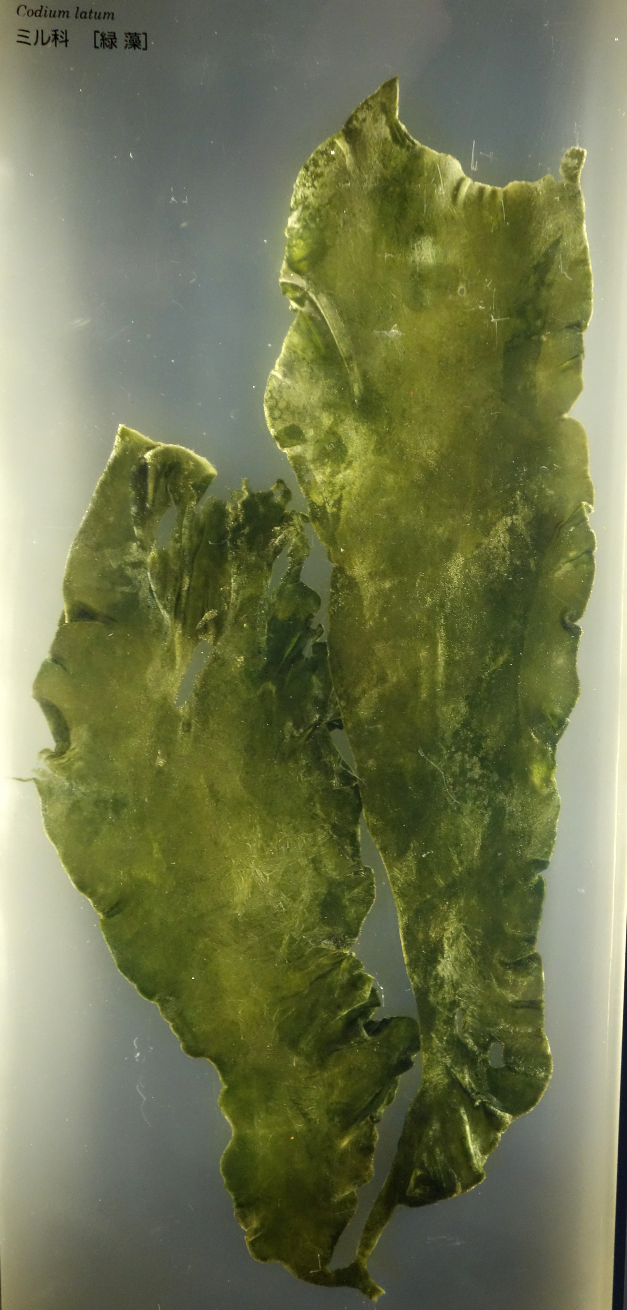 Exhibit in the National Museum of Nature and Science, Tokyo, Japan.